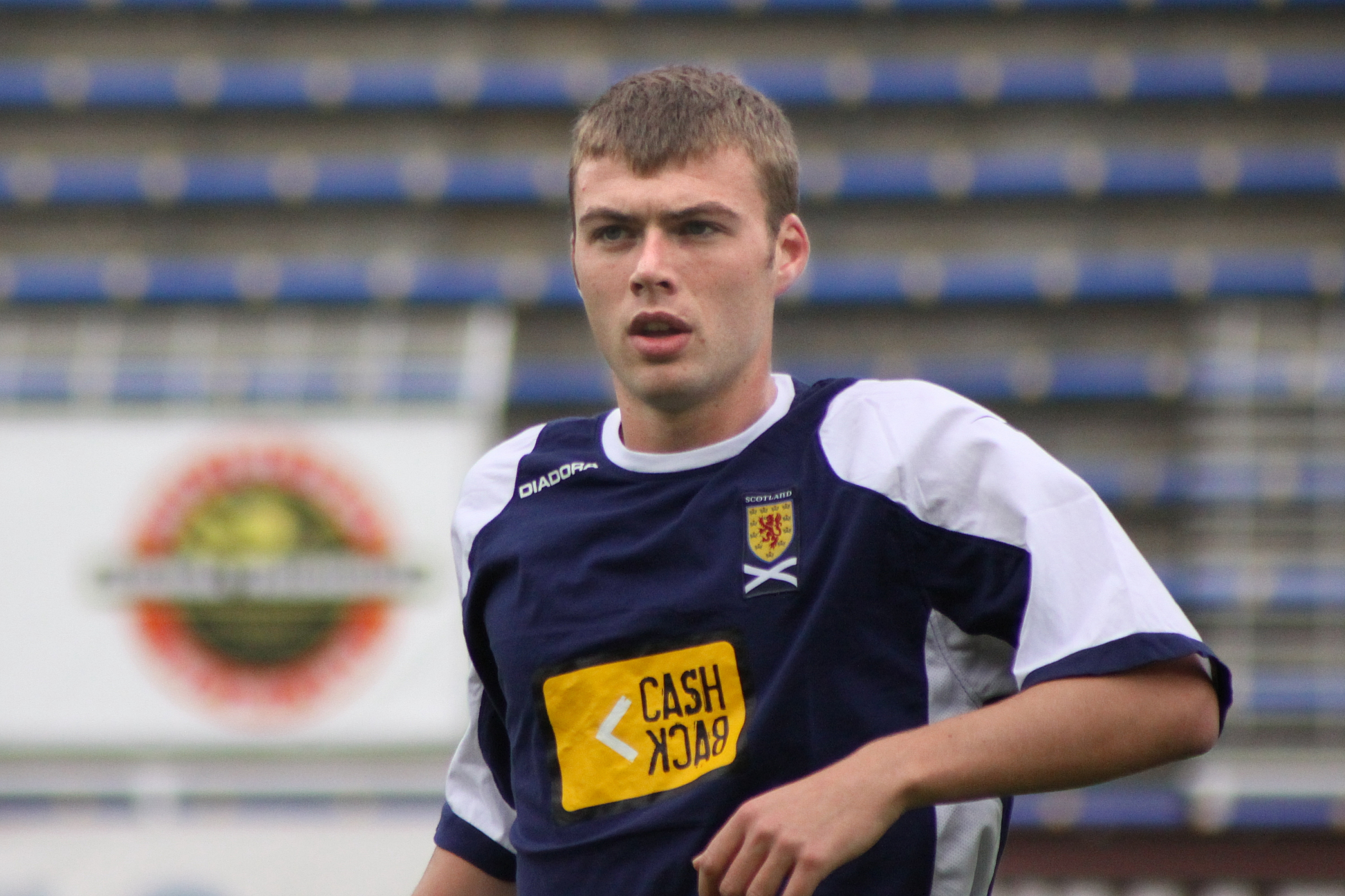 Rory Loy (Glasgow Rangers) - Schottische Fußballnationalmannschaft (U-21-Männer) Rory Loy (Rangers F.C.) - Scotland national under-21 football team — (2)